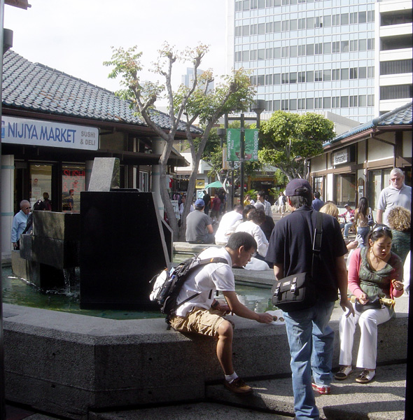 A typical scene in Los Angeles' Little Tokyo neighborhood. This is the Japanese Village Plaza. Photo taken by Bobak Ha'Eri, on November 11, 2006. Please observe license and properly cite in use outside Wikipedia.